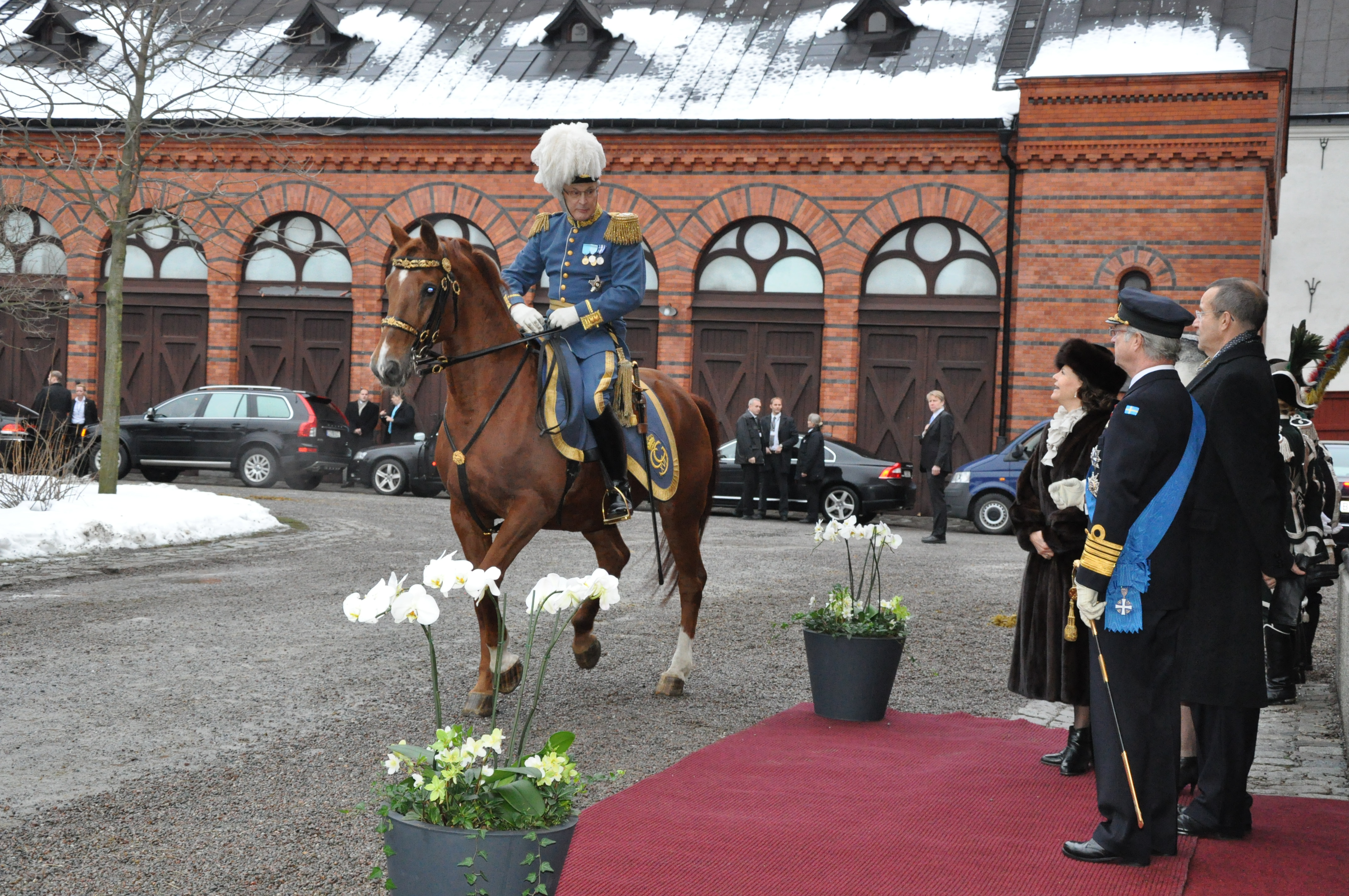 State visit to Stockholm, Sweden, 19-19-20-january-2011